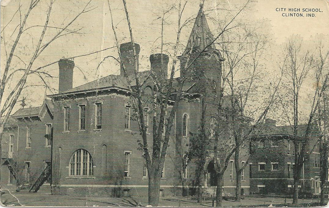 The original City of Clinton, Indiana high school.